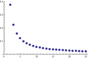 This plot of the first 25 terms of the converging sequence { n + 1 2 n 2 } n = 1 ∞ {\displaystyle \ \frac {n+1}{2n^{2 }\}_{n=1}^{\infty illustrates visually what it means for a sequence to converge. The limit of convergence here is 0.